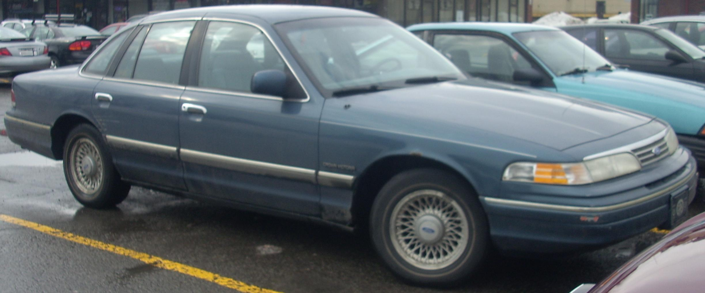 1993-1994 Ford Crown Victoria photographed in Montreal, Quebec, Canada.